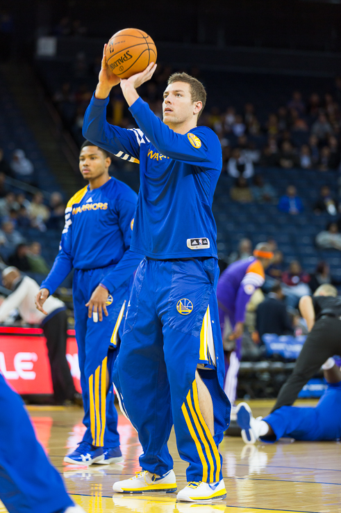 David Lee of the Golden State Warriors prepares to shoot the ball